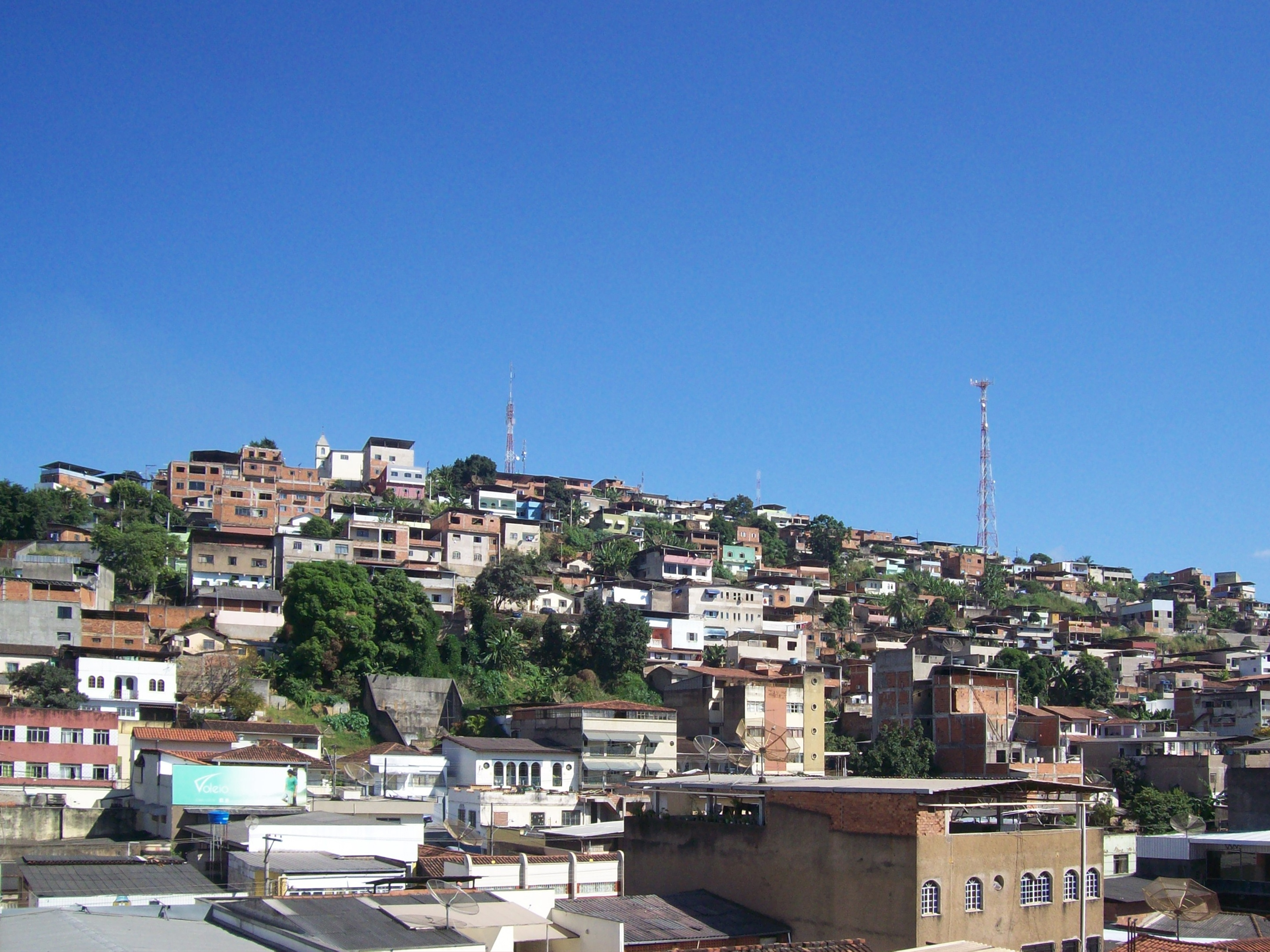 Partial view of the Morro do Carmo, a slum of Coronel Fabriciano, Minas Gerais, Brazil.